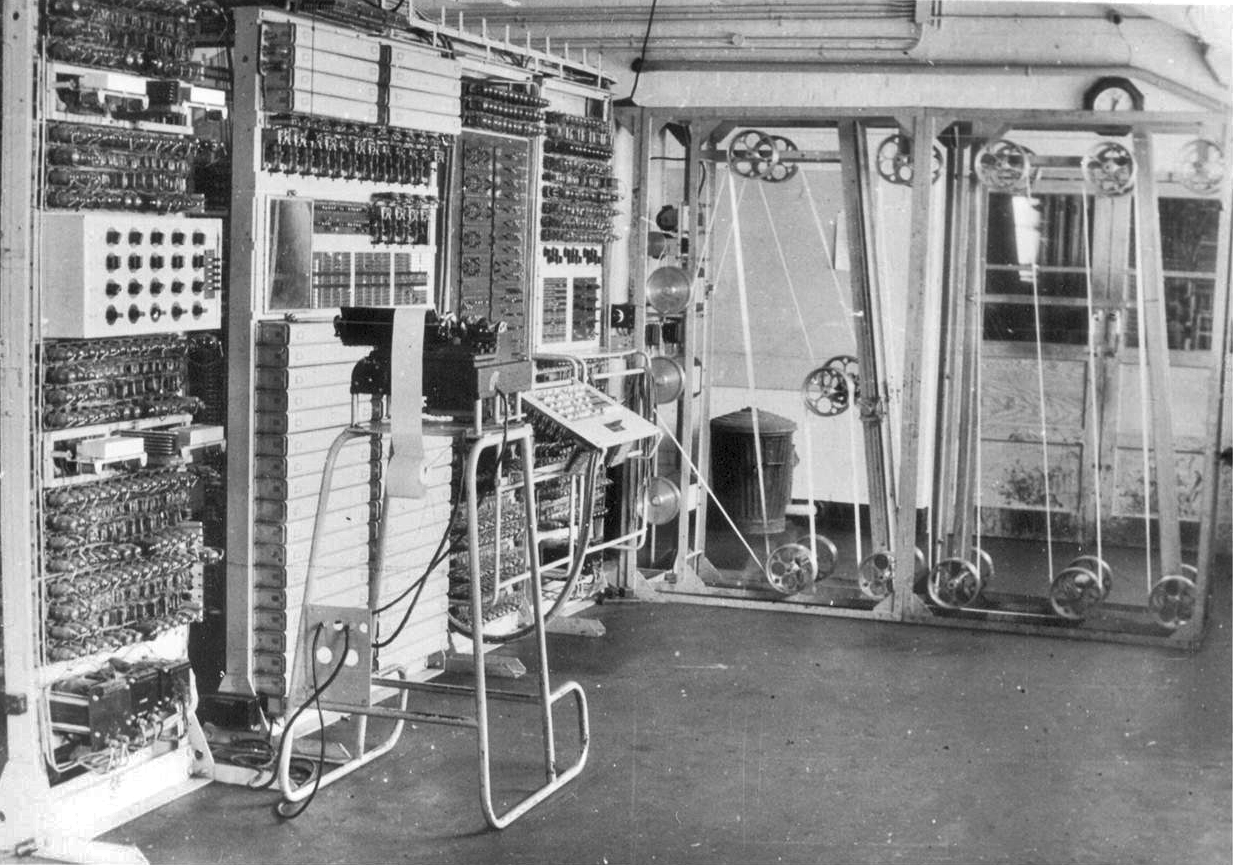 Colossus 10 in Block H at Bletchley Park in the room now containing the Tunny gallery of The National Museum of Computing